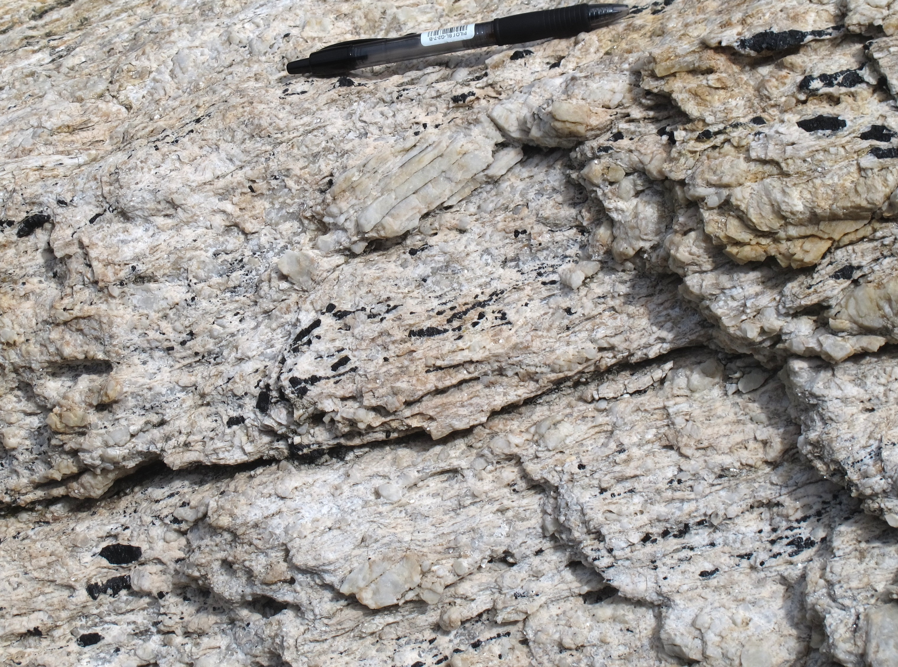 Mylonitised pegmatite with boudinaged tourmaline crystals. Near Cala de Portixo, Cap de Creus area, Catalunya